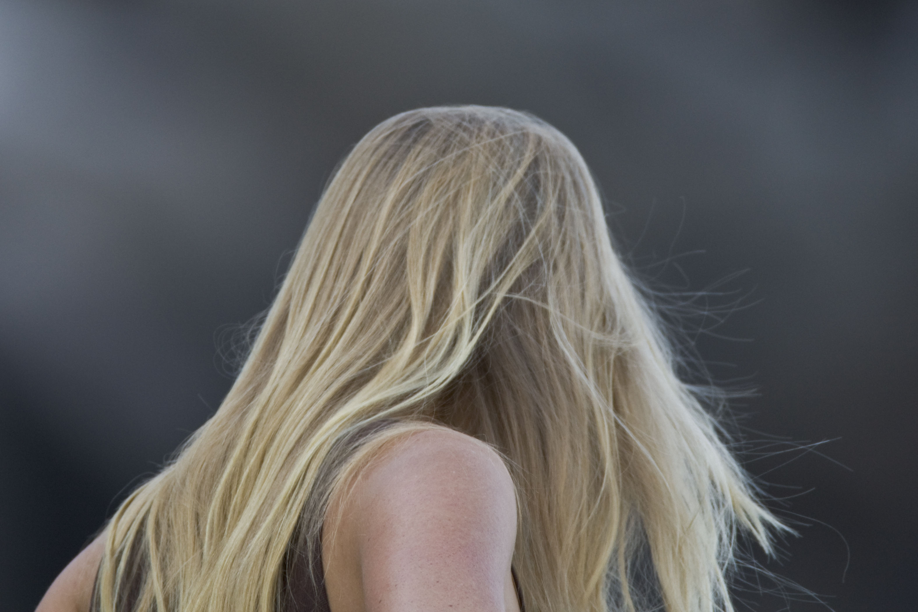 Blond long-haired young lady woman watching the surfers at Morro Rock, Morro Bay, CA, Morro Strand State Beach taken from the parking lot, Sat. Nov. 03 2007 03nov2007 Photo by Mike Baird, Canon 1D Mark III w/ 600mm IS lens w/ 1.4X II tele-extender for 840mm, or tripod with gimbal head - Several formatted versions of this photo (.TIF .PNG .JPG) are in a test set photomorrobay pool members especially, please critique this image for technical and/or artistic improvement. mike [at} mikebaird dot com